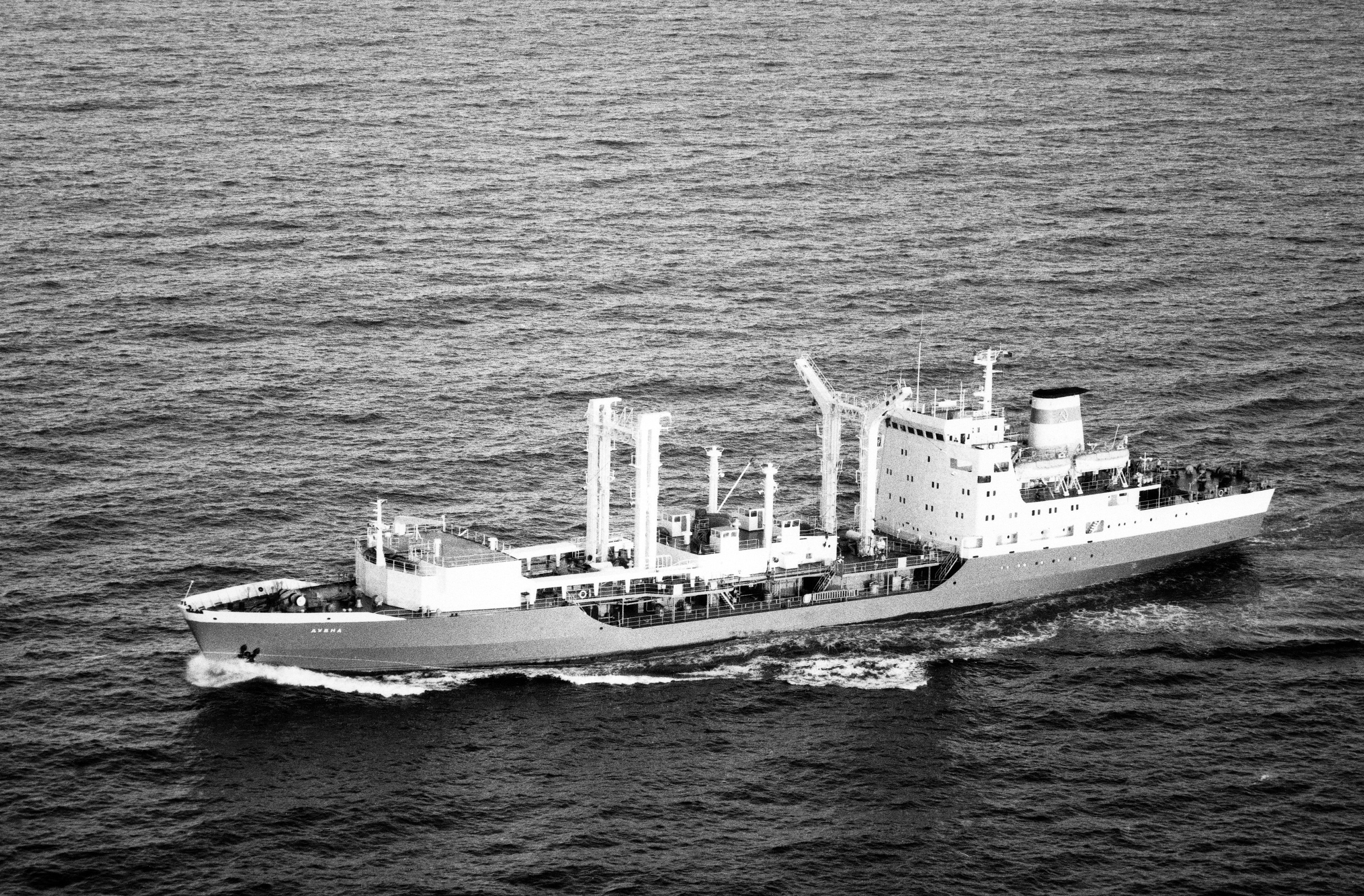 A port bow view of the Soviet Dubna class replenishment oiler DUBNA underway.